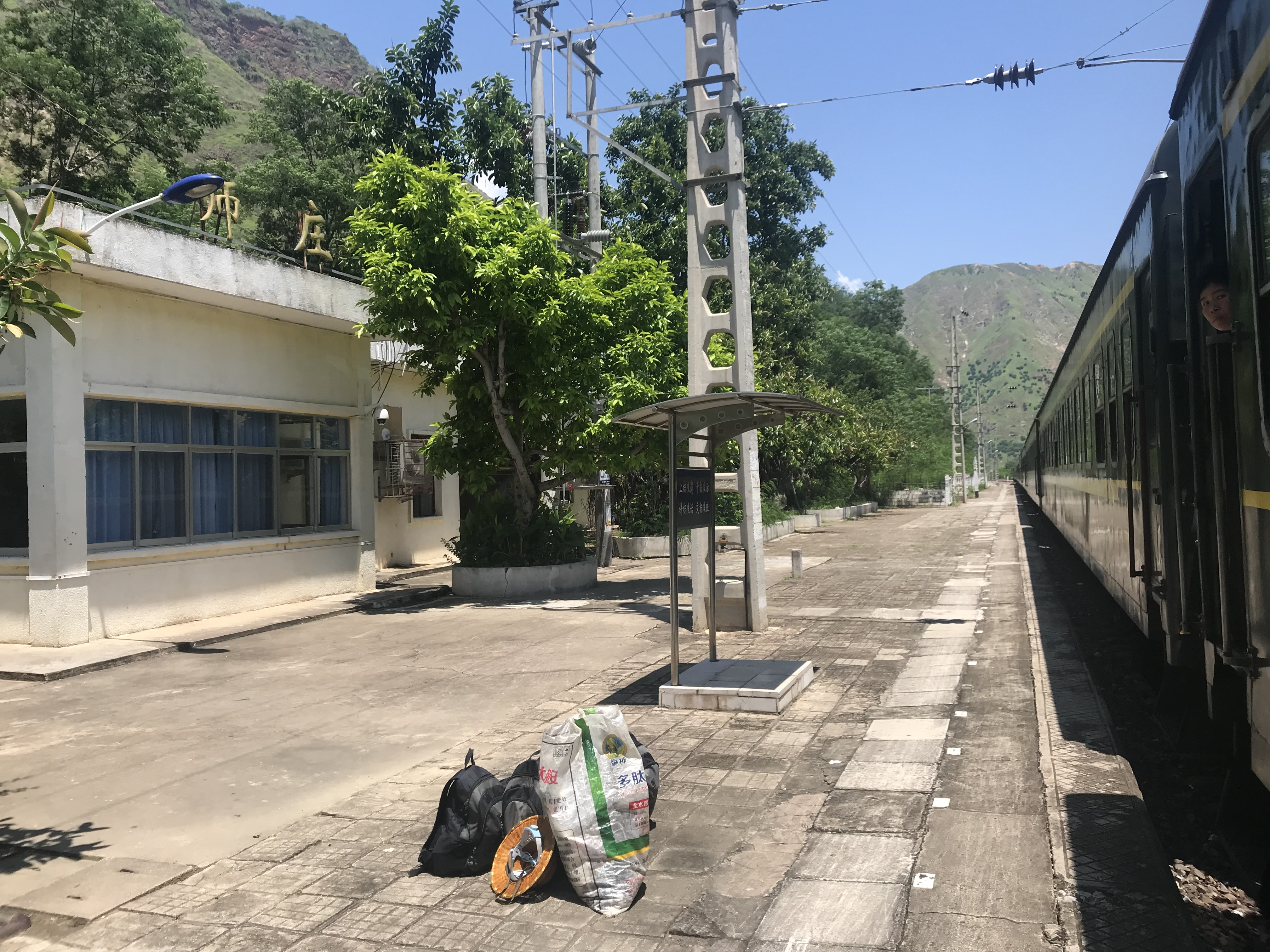 201908 Station Building of Shizhuang